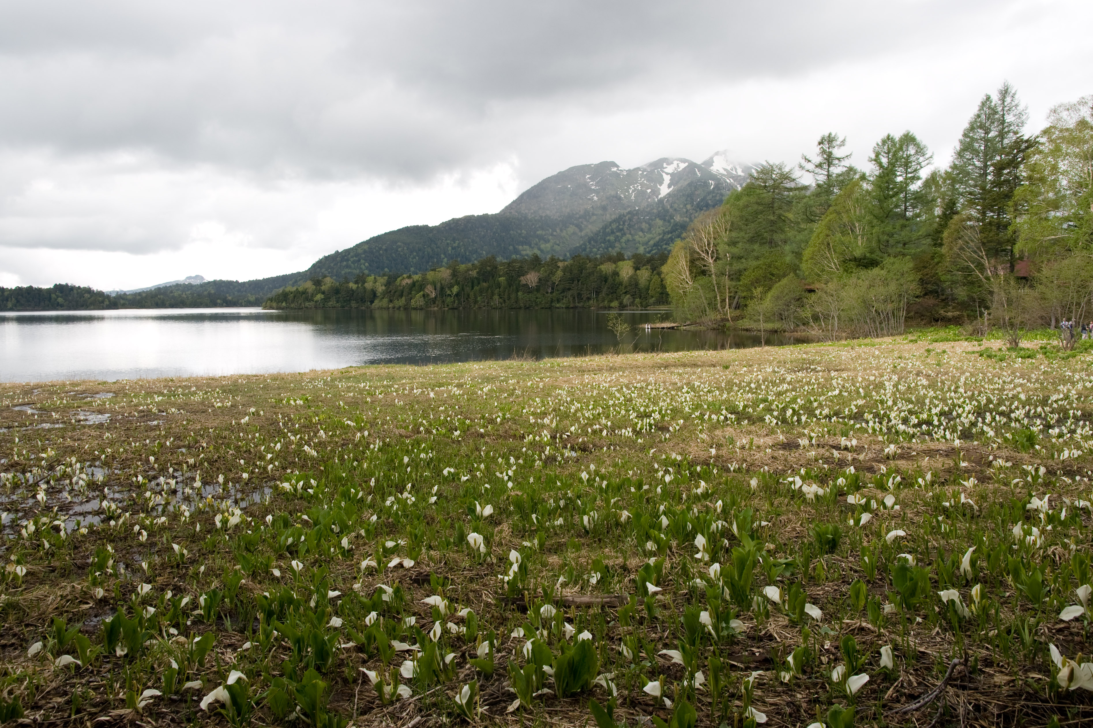 Oze-numa Marsh (Oze-numa 尾瀬沼), Katashina Vill., Gunma Pref., Japan